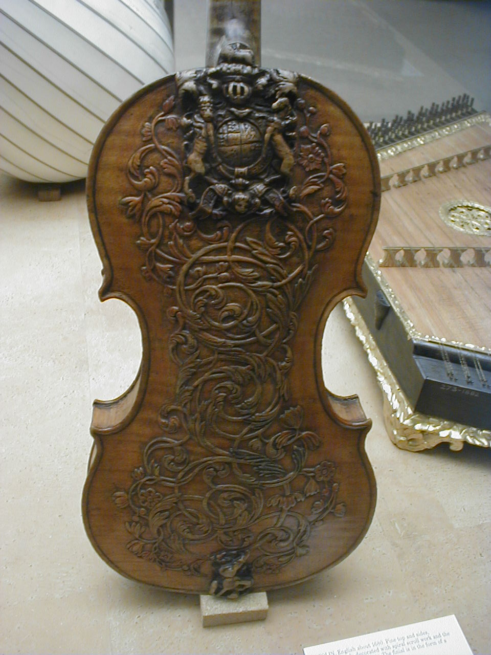 Detailed carving on the back of a violin, seen at the Victoria and Albert Museum in London. The paper in the foreground says : « Violin, English about 1680. Pine top and sides, sycamore back, decorated with spiral scroll work and the royal arms of the Stuarts. The final is in the form of a woman's head. The instrument is not signed but a number of names have been suggested, the most likely being Thomas Urquhart, who worked at London Bridge between 1648 and 1680. The baroque style of decoration and Royal Stuart arms would indicate that the instrument was part of the household of Charles II or James II. Charles II is known to have preferred the brisk and arie sounds of the violin to the contrapuntal fancies of the viol. »